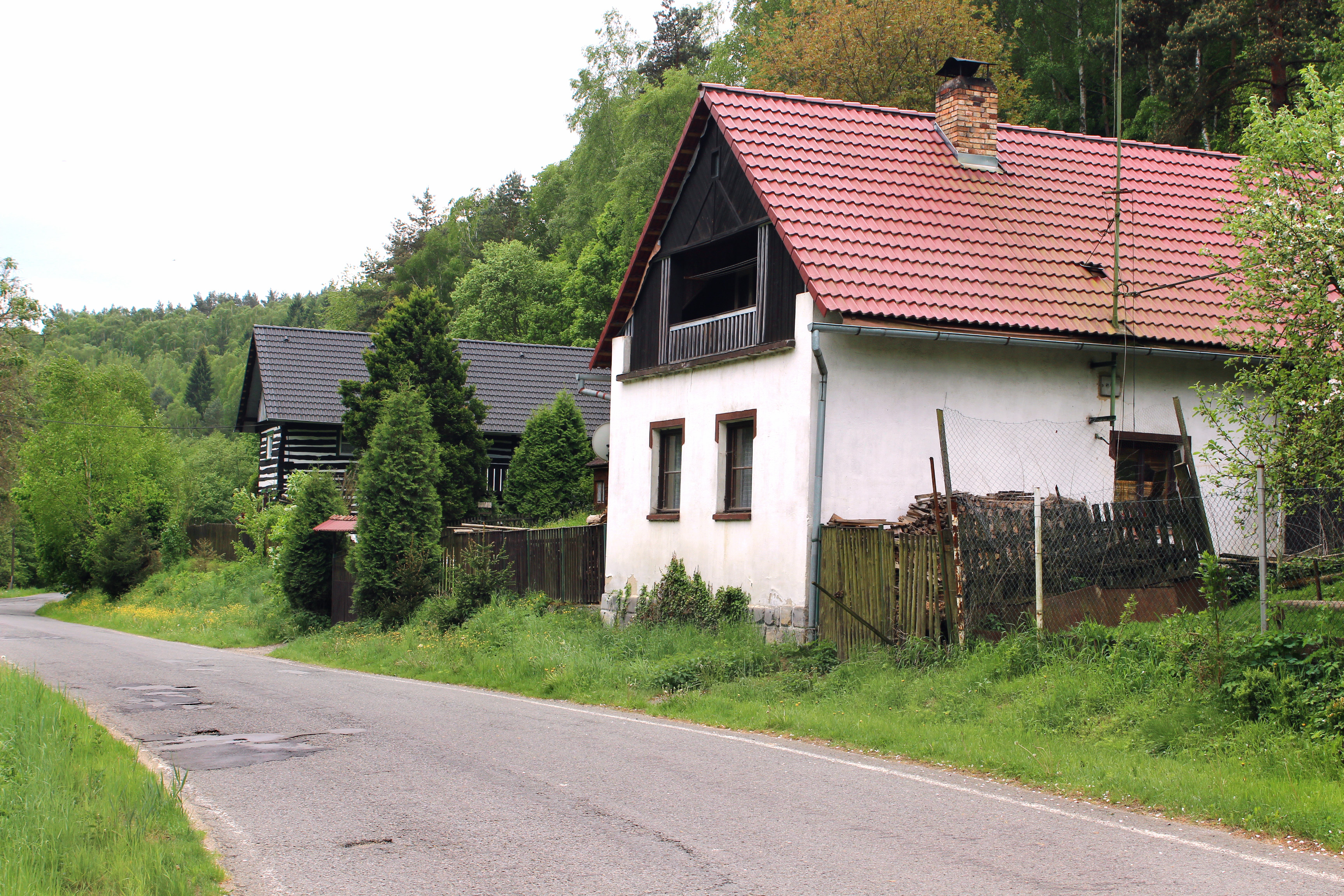 South part of Tubož, part of Blatce municipality, Czech Republic